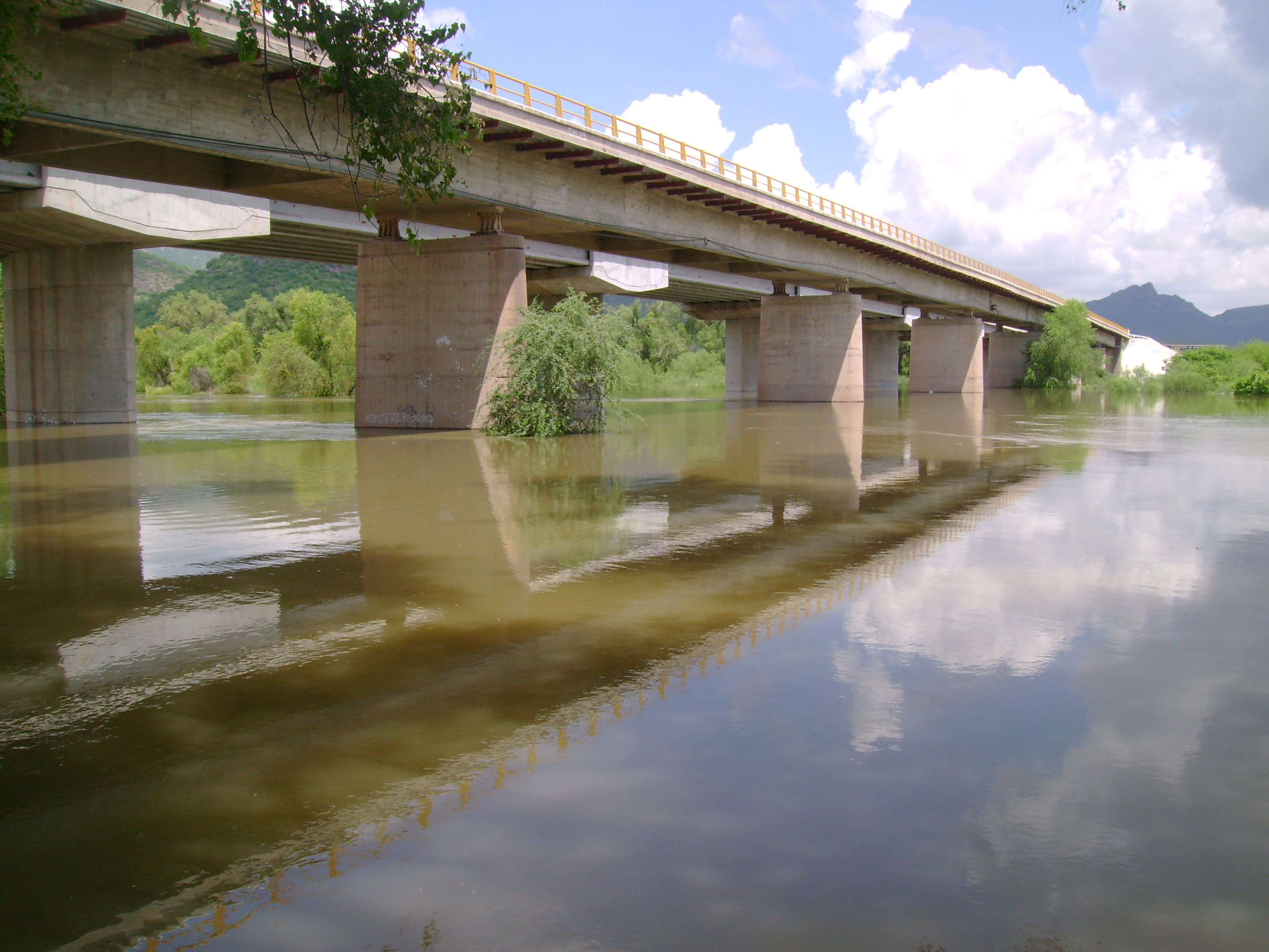 Crecida del Río Fuerte el 02 de septiembre de 2008